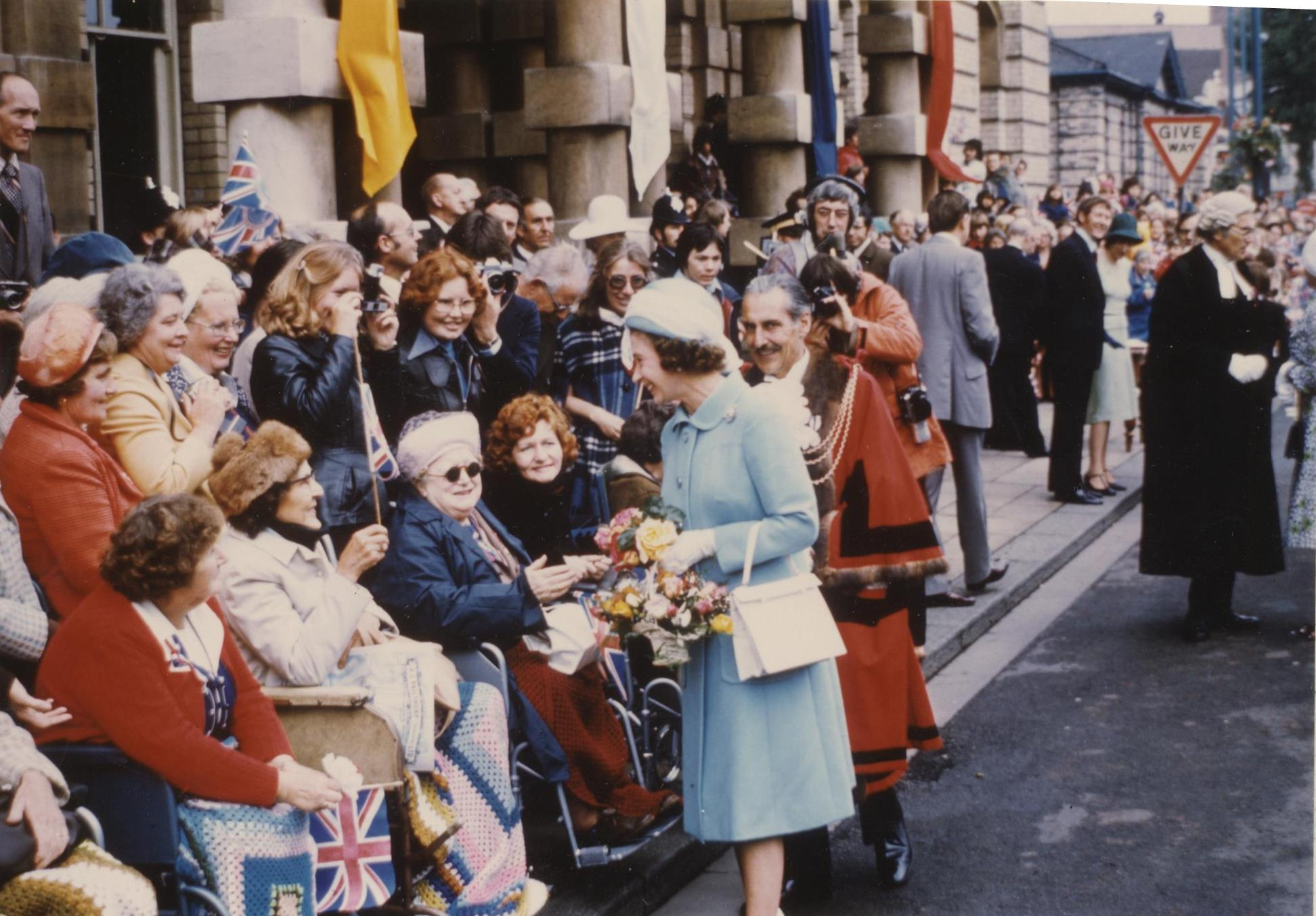 Her Majesty The Queen chats with a group of disabled ladies who have come to wish her well for the Royal Silver Jubilee. Councillor P Willing, Mayor of Grimsby, is by Her Majesty's side. (Why not try searching our East Riding of Yorkshire Map for more historic images? ) (Copyright) We're happy for you to share this digital image within the spirit of Creative Commons. Please cite ' ' when reusing. Certain restrictions on high quality reproductions and commercial use of the original physical version apply. If unsure please